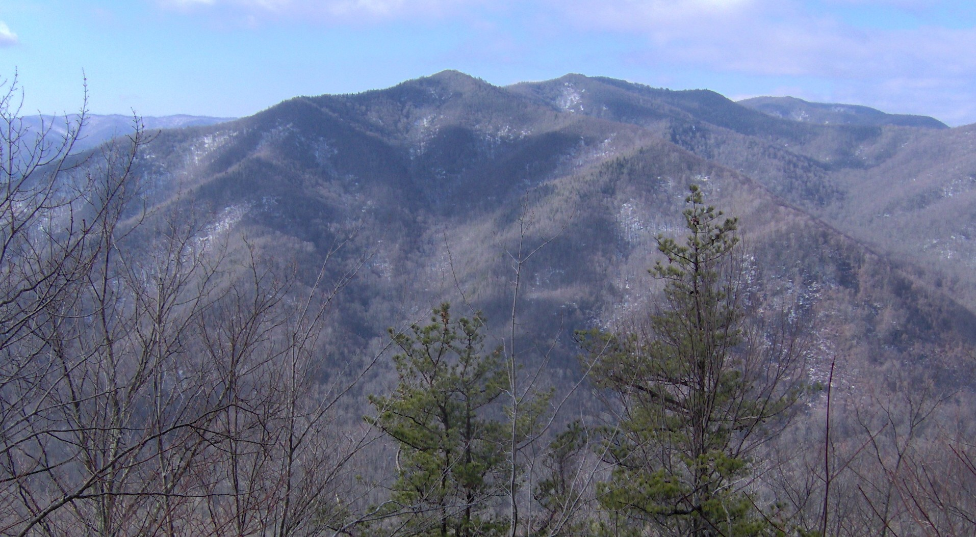 Looking out over the Little River Valley from the an overlook on the western slopes of the north peak of Sugarland Mountain, in the Great Smoky Mountains of the southeastern United States. Bent Arm Ridge-- an extension of Miry Ridge-- dominates the view. Blanket Mountain rises behind the ridge on the right. The main crest of the Smokies is in the far distance on the left. This overlook is near the halfway point along the 12-mile trail.